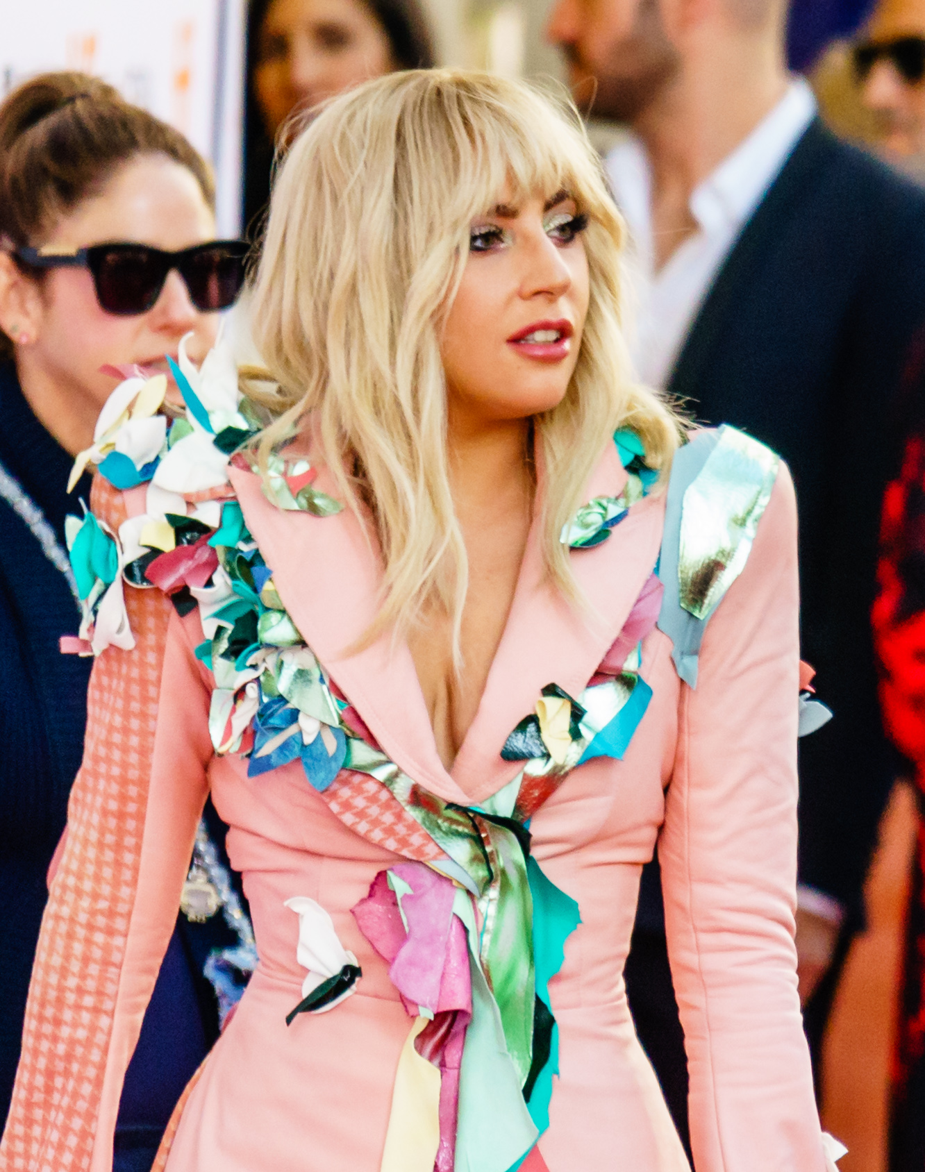 Lady Gaga at the premiere of "Gaga: Five Foot Two" at the Toronto International Film Festival, 2017